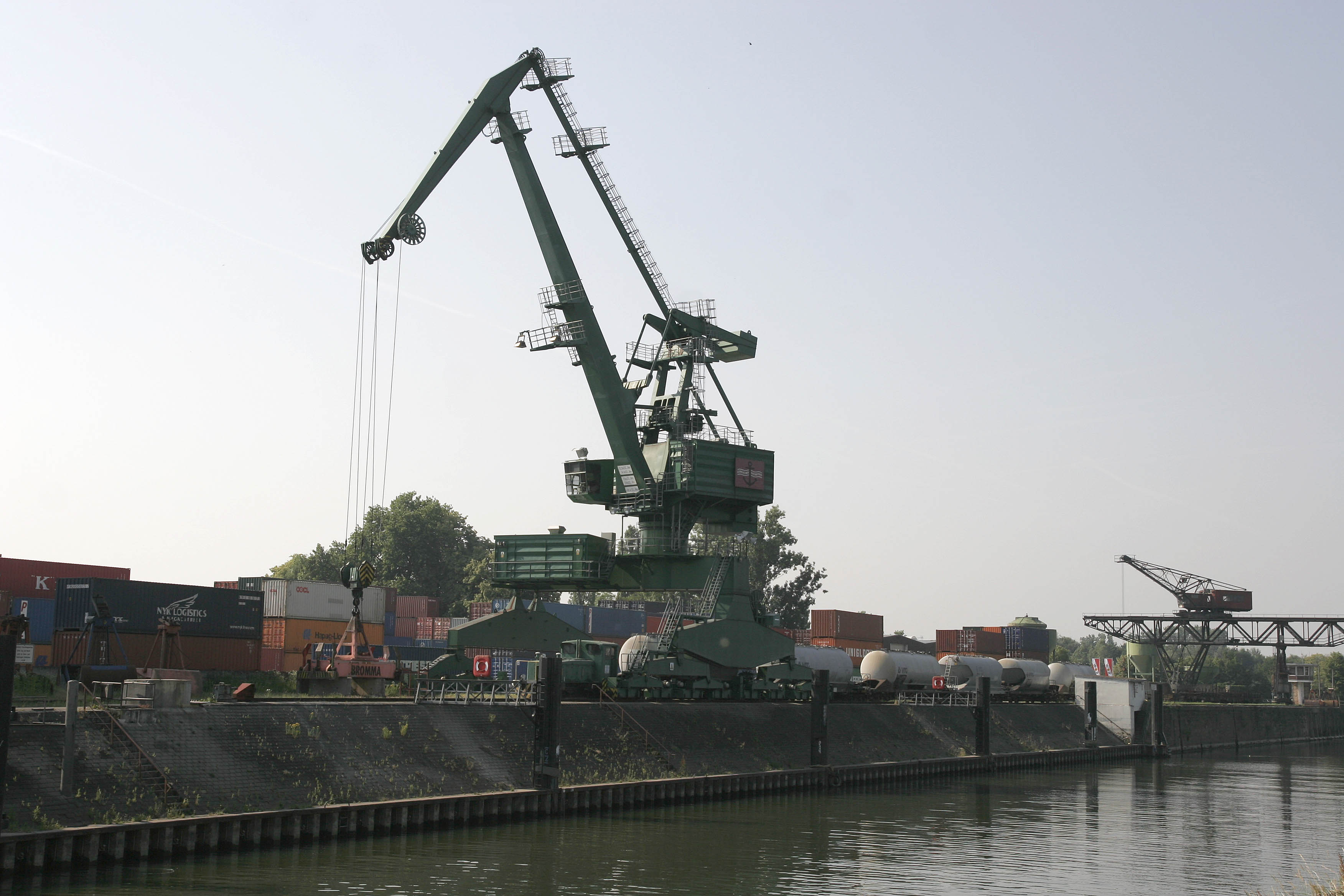 The Rhine harbor of Gernsheim (Germany).